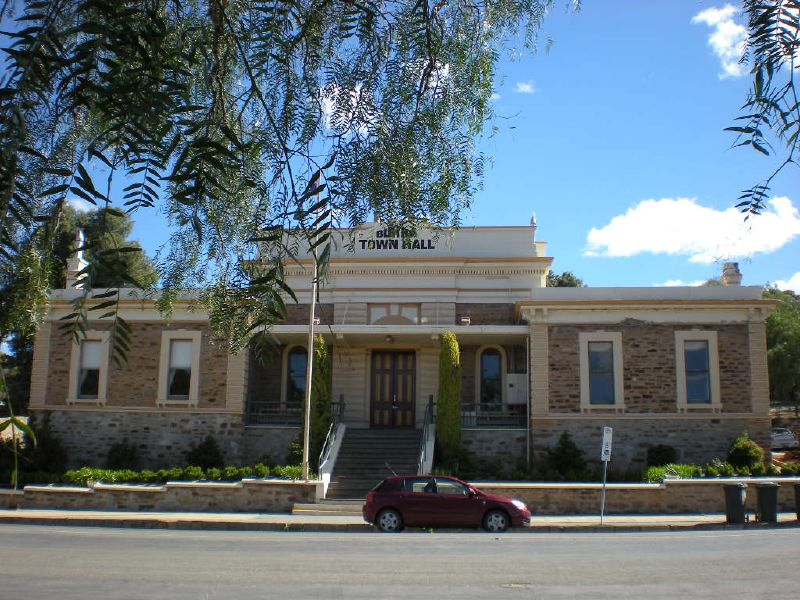 Hotel de ville de Burra, Australie-Méridionale